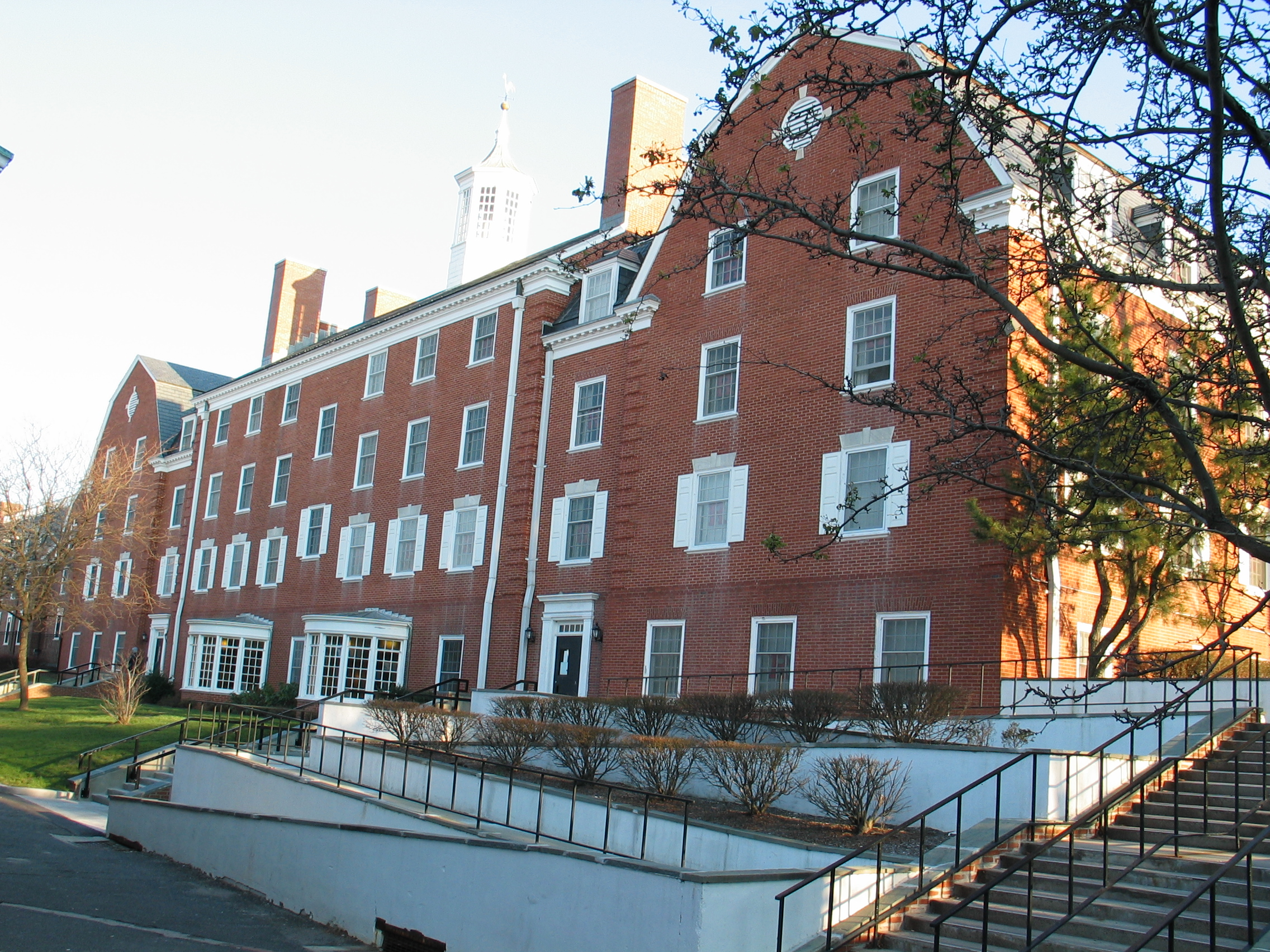 Demarest Hall rear, College Avenue campus, Rutgers University